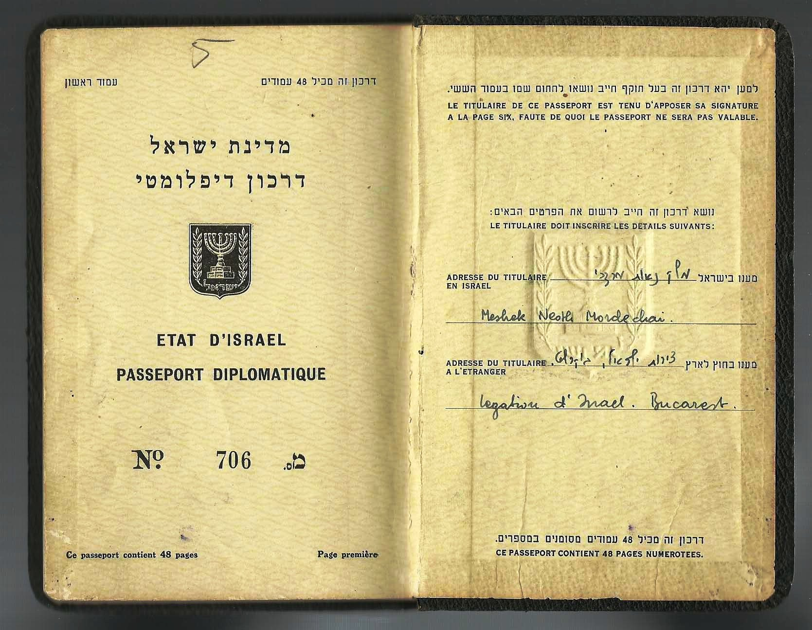 pages from Ehud Avriel's diplomatic passport - 1951